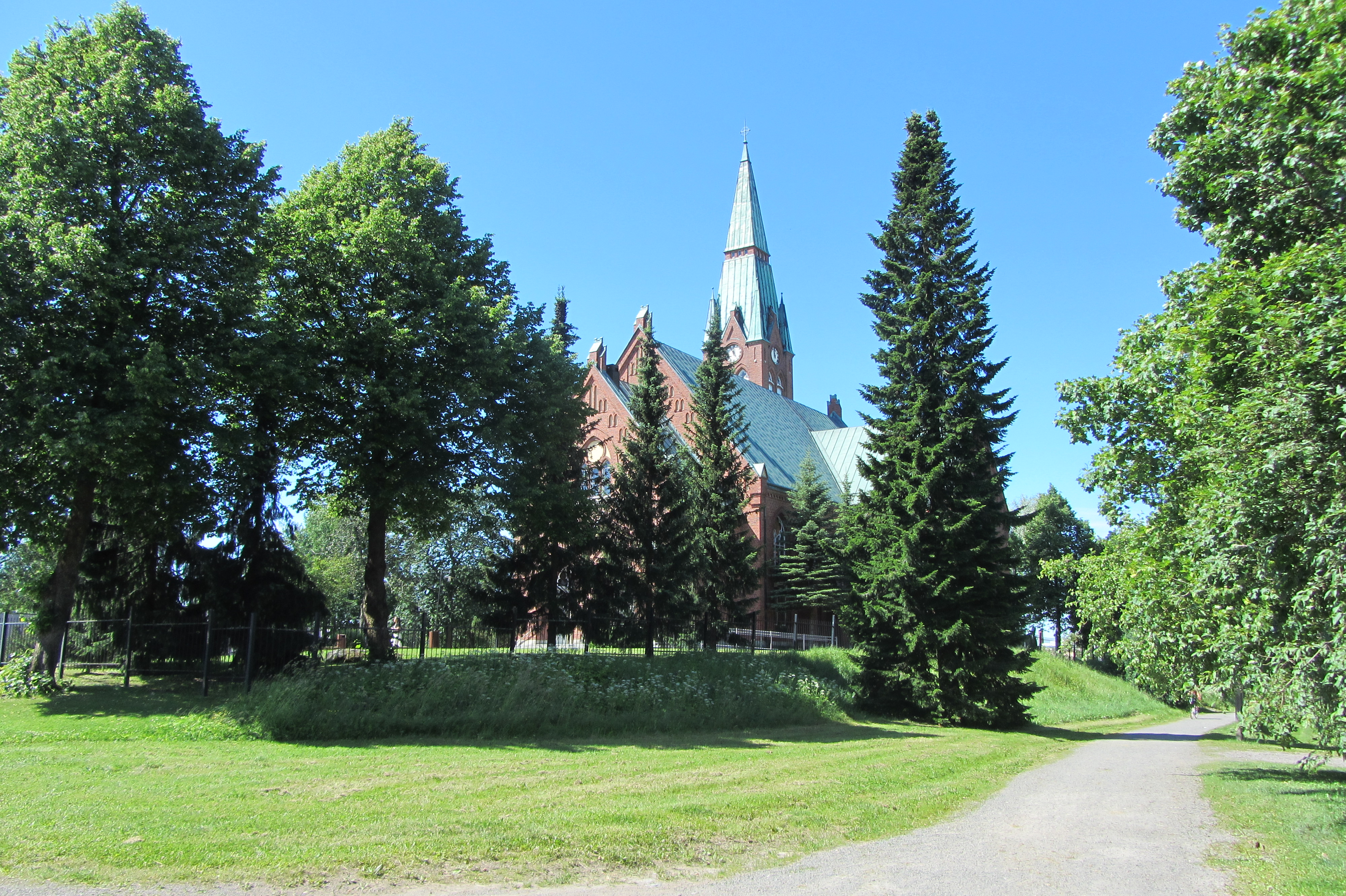 Forssa Church